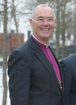 Alan Harper, former Anglican Archbishop of Armagh